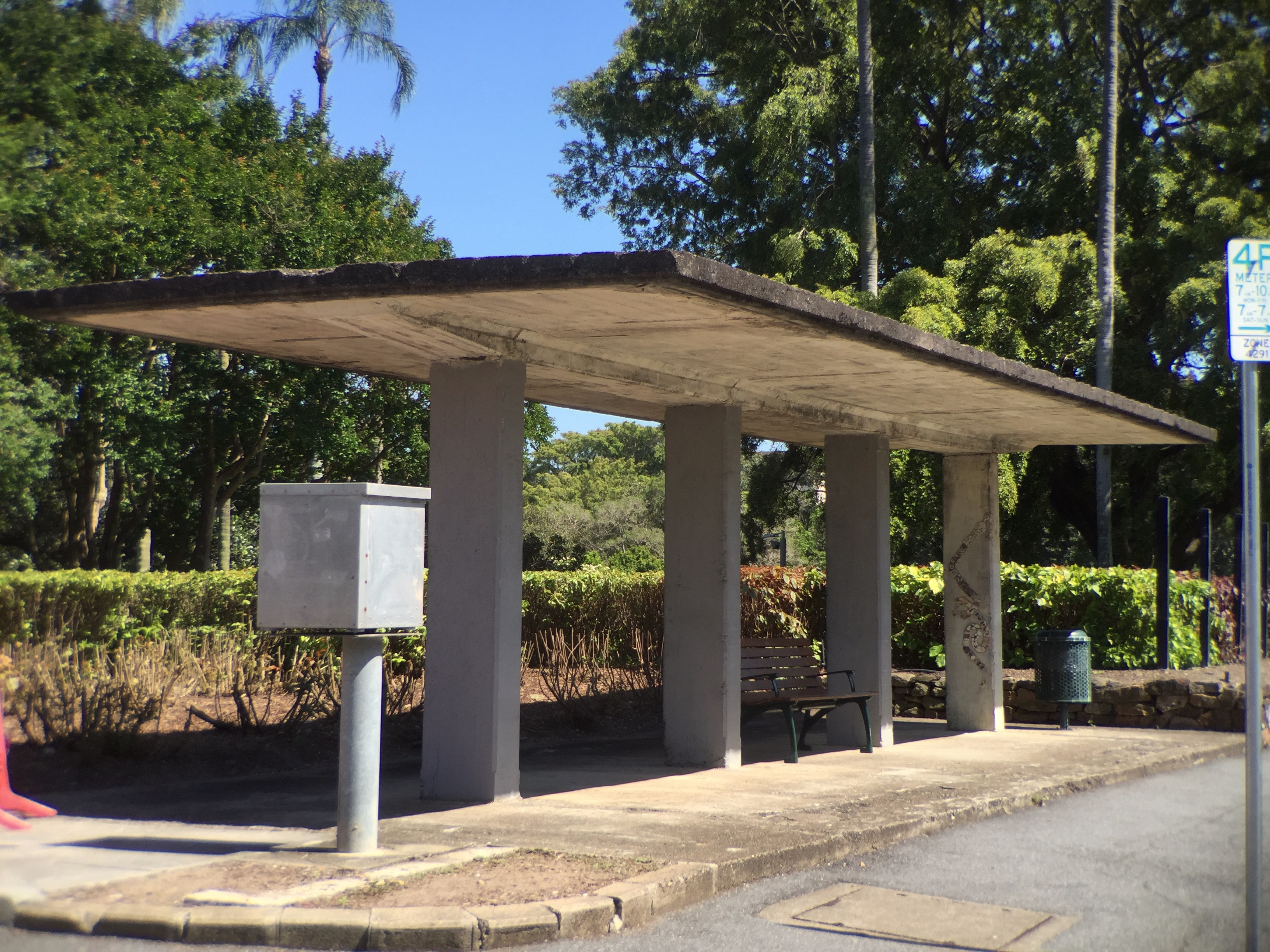 Albert Park (South) Air Raid Shelter at Upper Albert Street, Brisbane